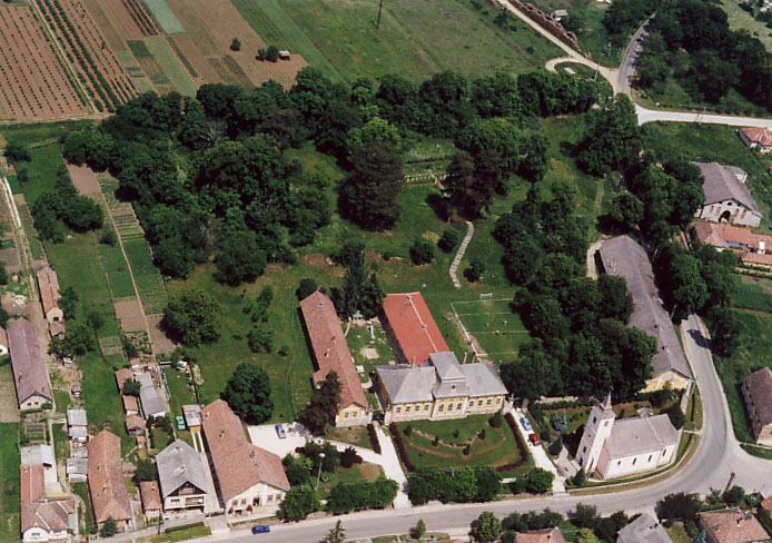 Palace - Keszeg - Hungary - Europe